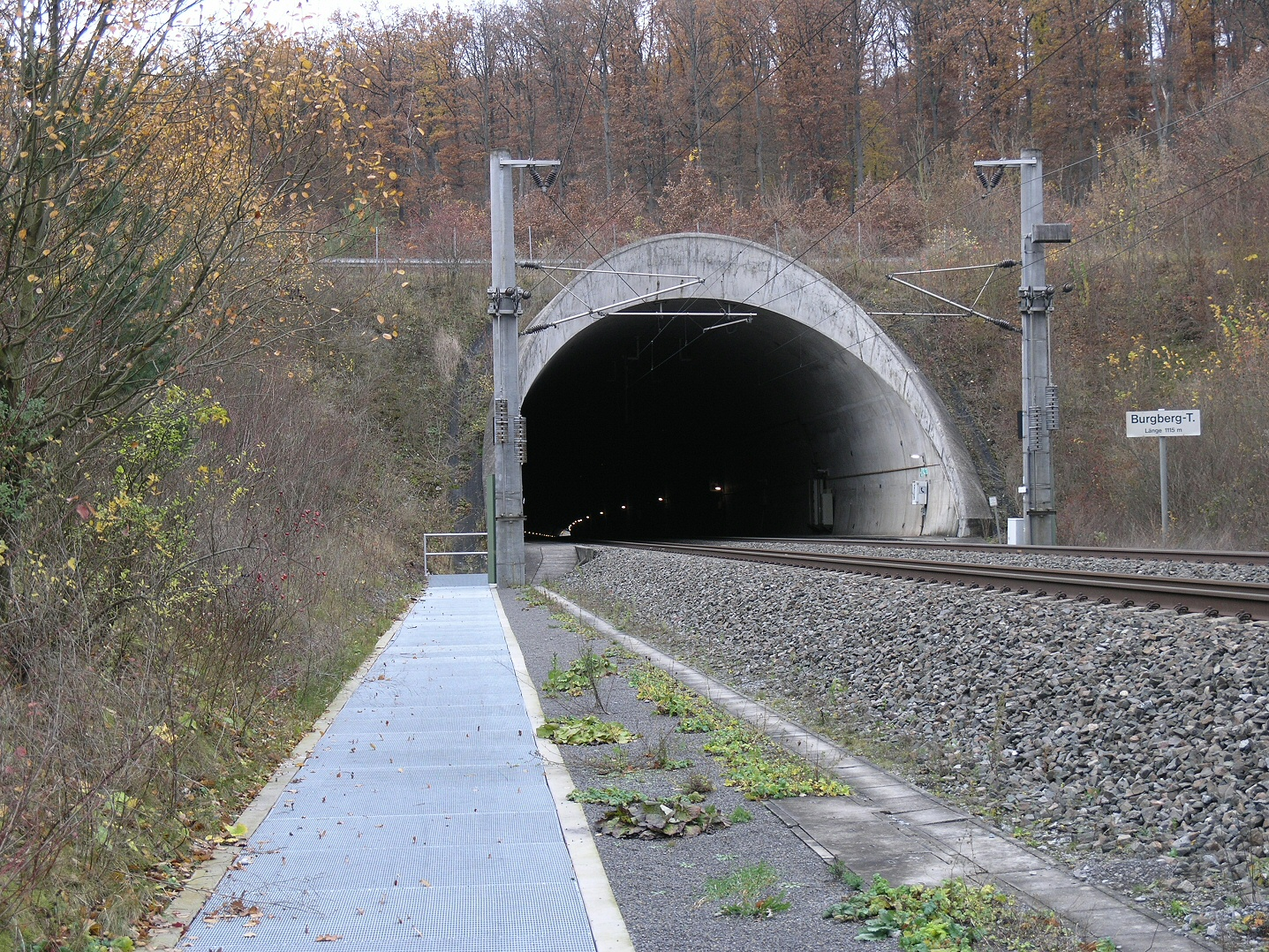 Eastern entrance of the Burgbergtunnel, part of the high-speed railway line Mannheim-Stuttgart